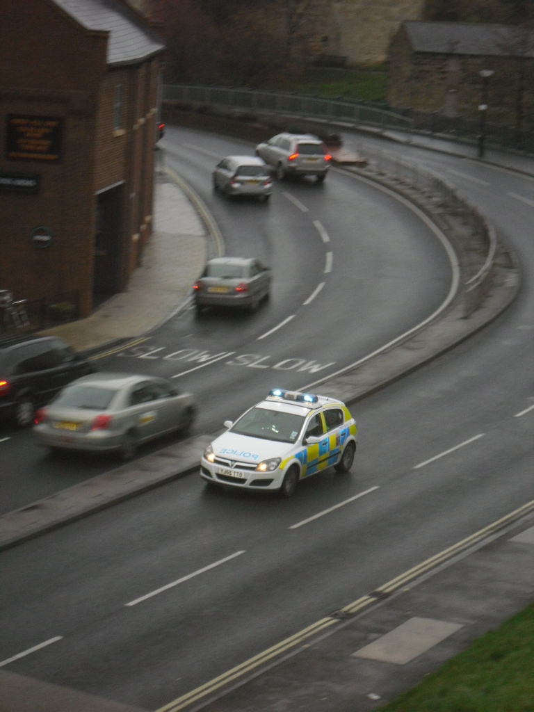 A North Yorkshire Police car responding to an emergency call in York City Centre